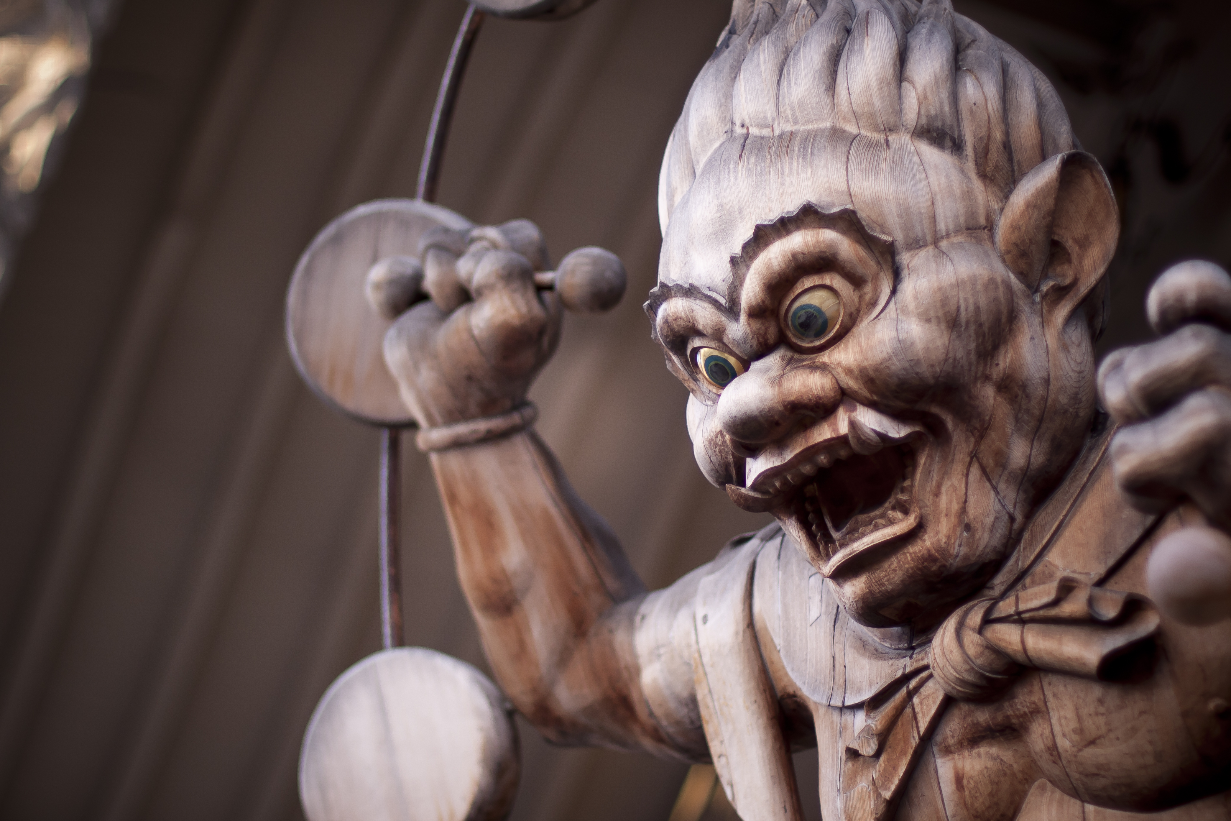 Wooden sculpture of Raijin, the God of Thunder. Located at the Hawaii Shingon Mission